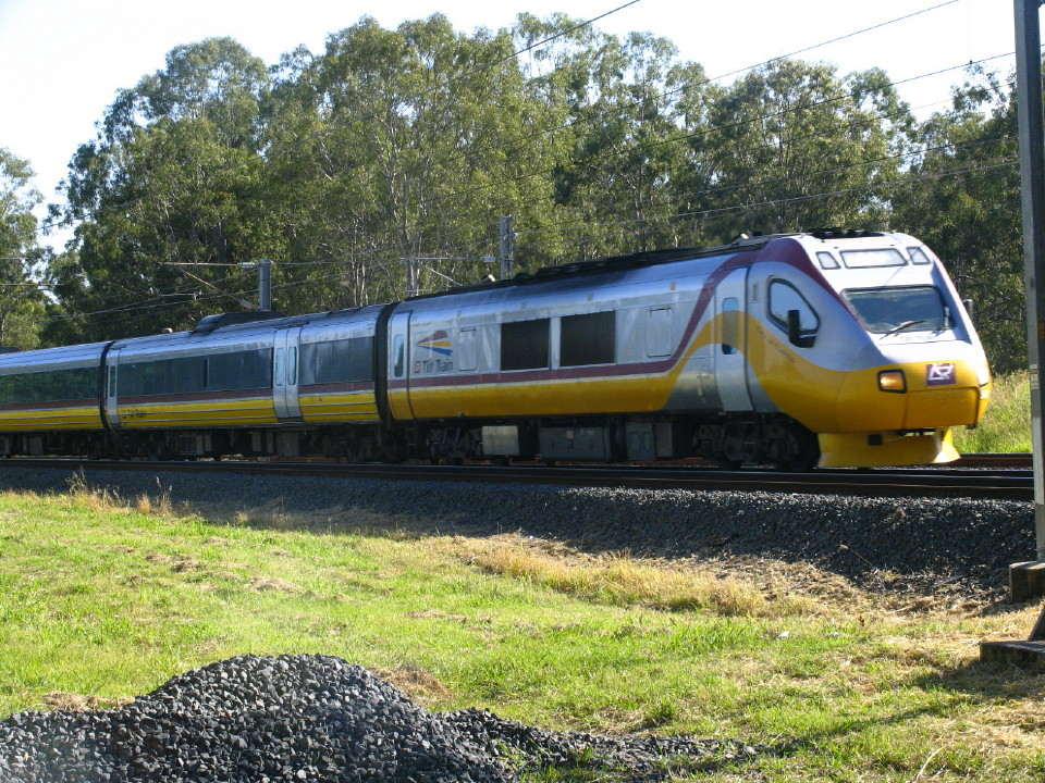 On of the two Cairns Tilt Trains in Queensland, Australia. (Not the best quality photograph that I'm too proud of, but something to put into Cairns Tilt Train derailment for now.)